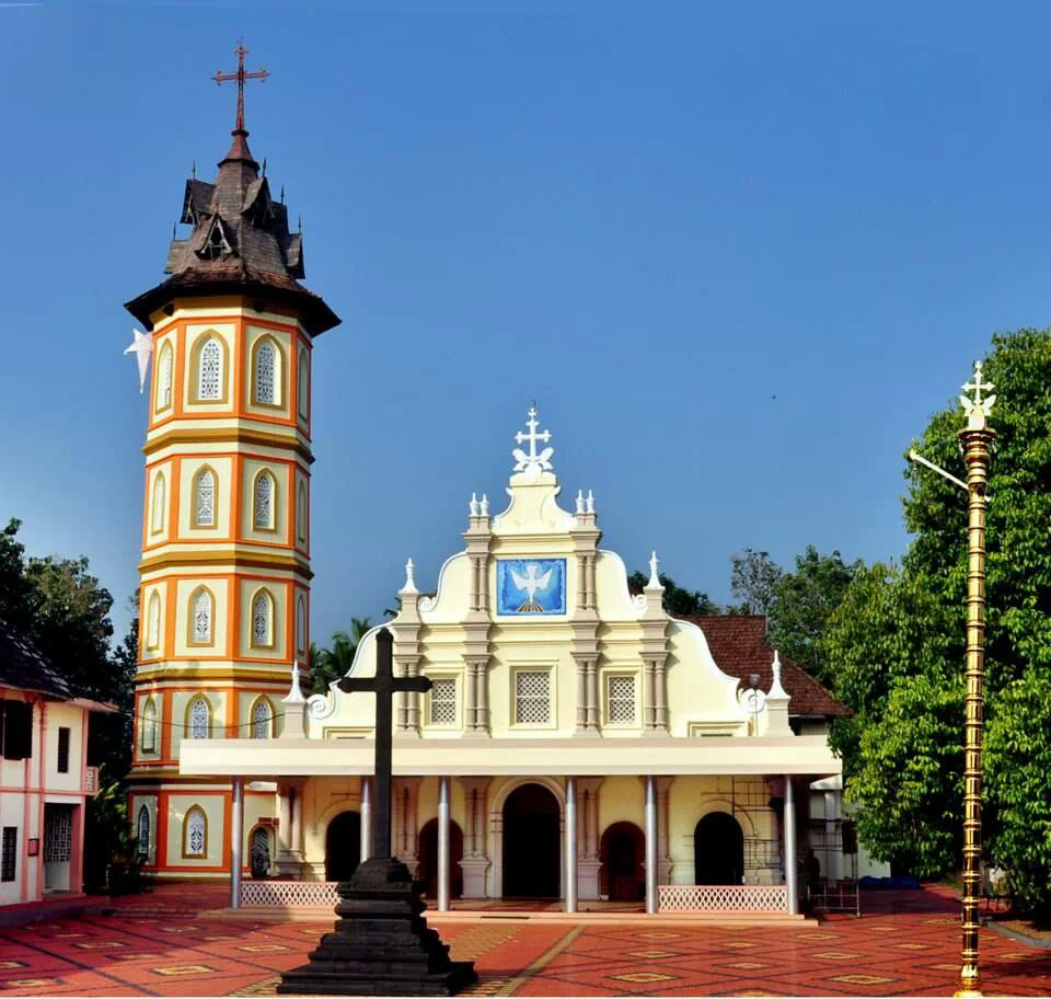 Rooha D Kudhisha Syro-Malabar Catholic Forane Church, Muttuchira